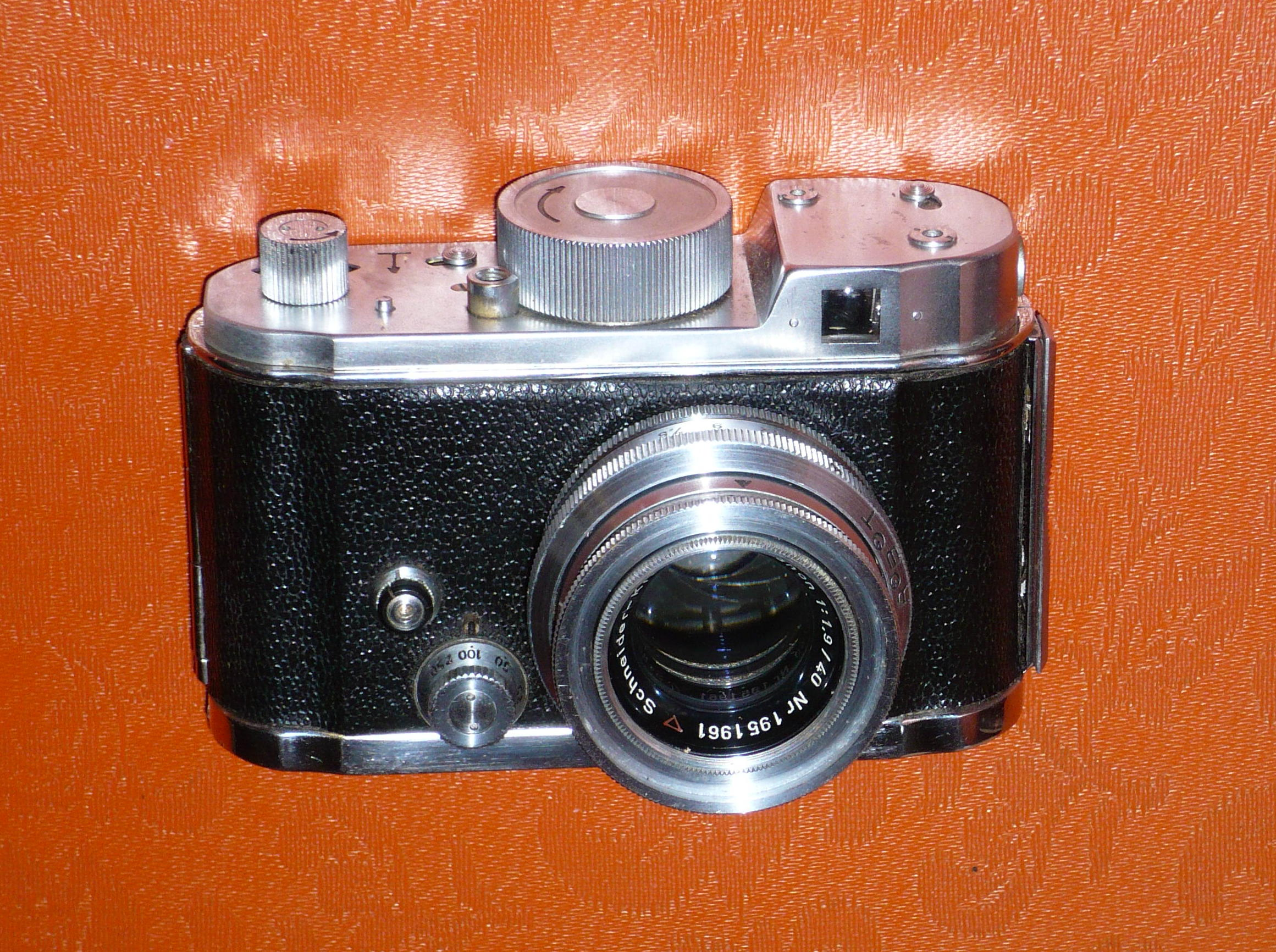 Robot II camera